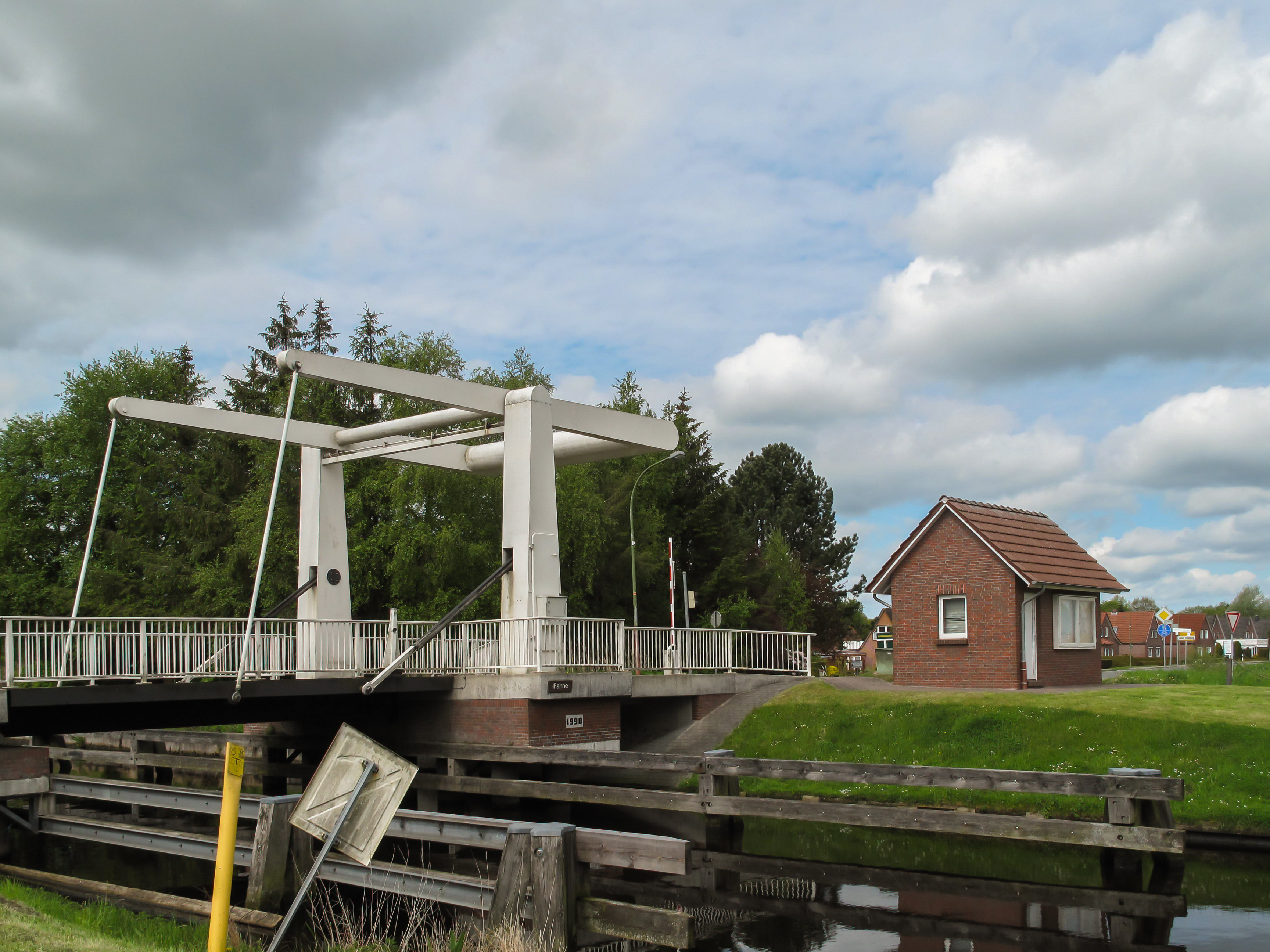 Westerende-Kirchloog, drawbridge